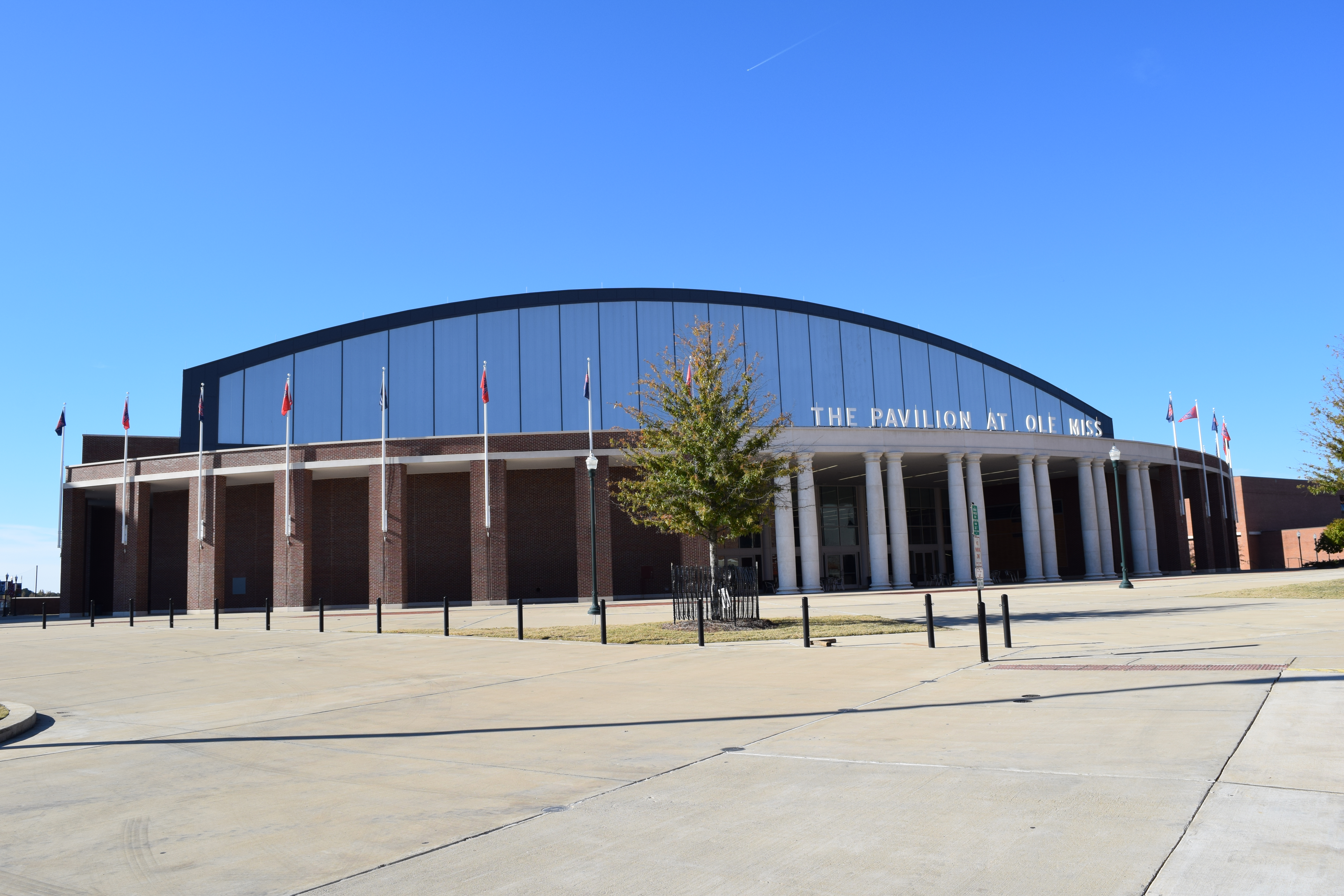 The north side of the Pavilion at Ole Miss along All American Way on the University of Mississippi campus